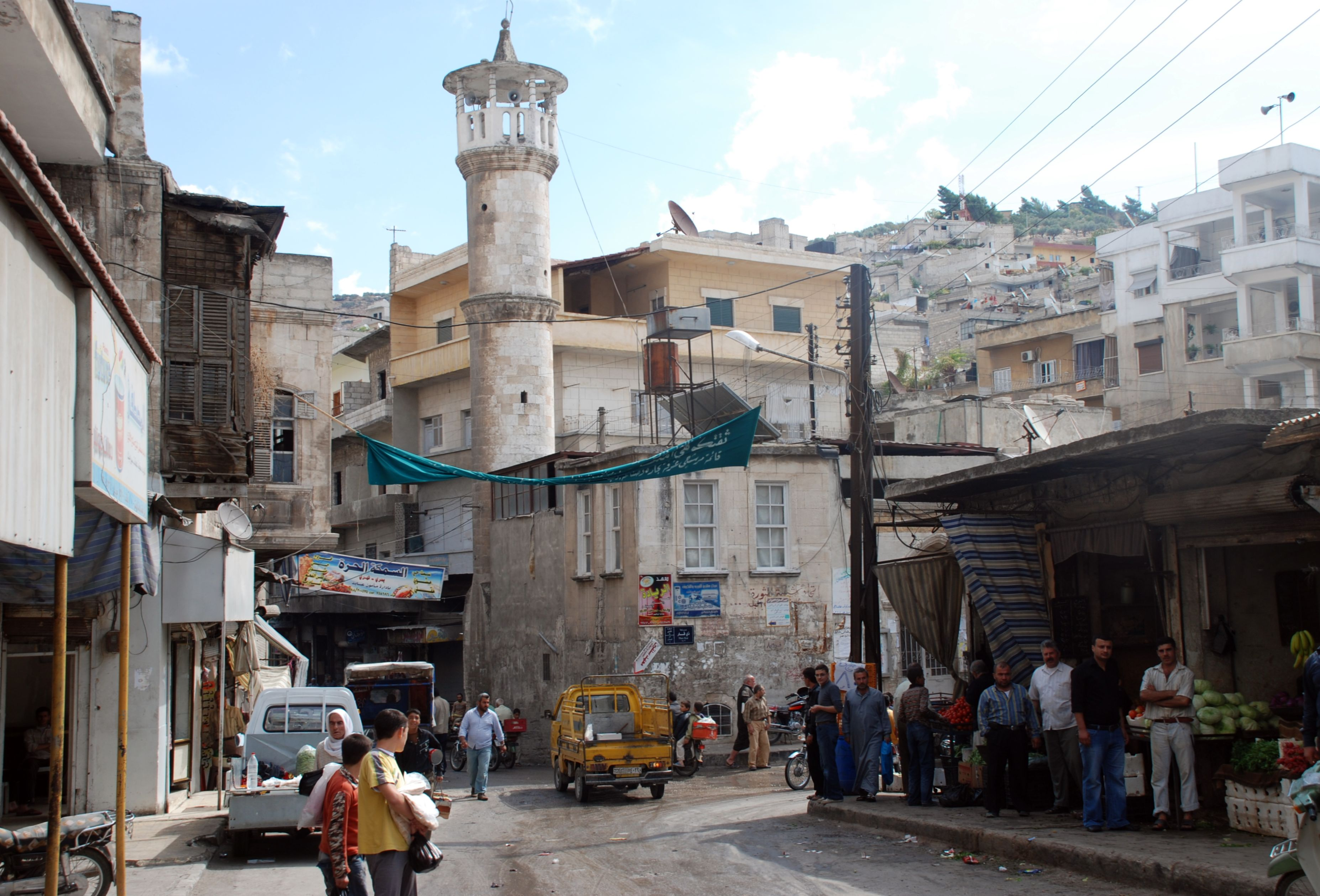 Salqin, centre. North of Jisr ash-Shugur, Syria